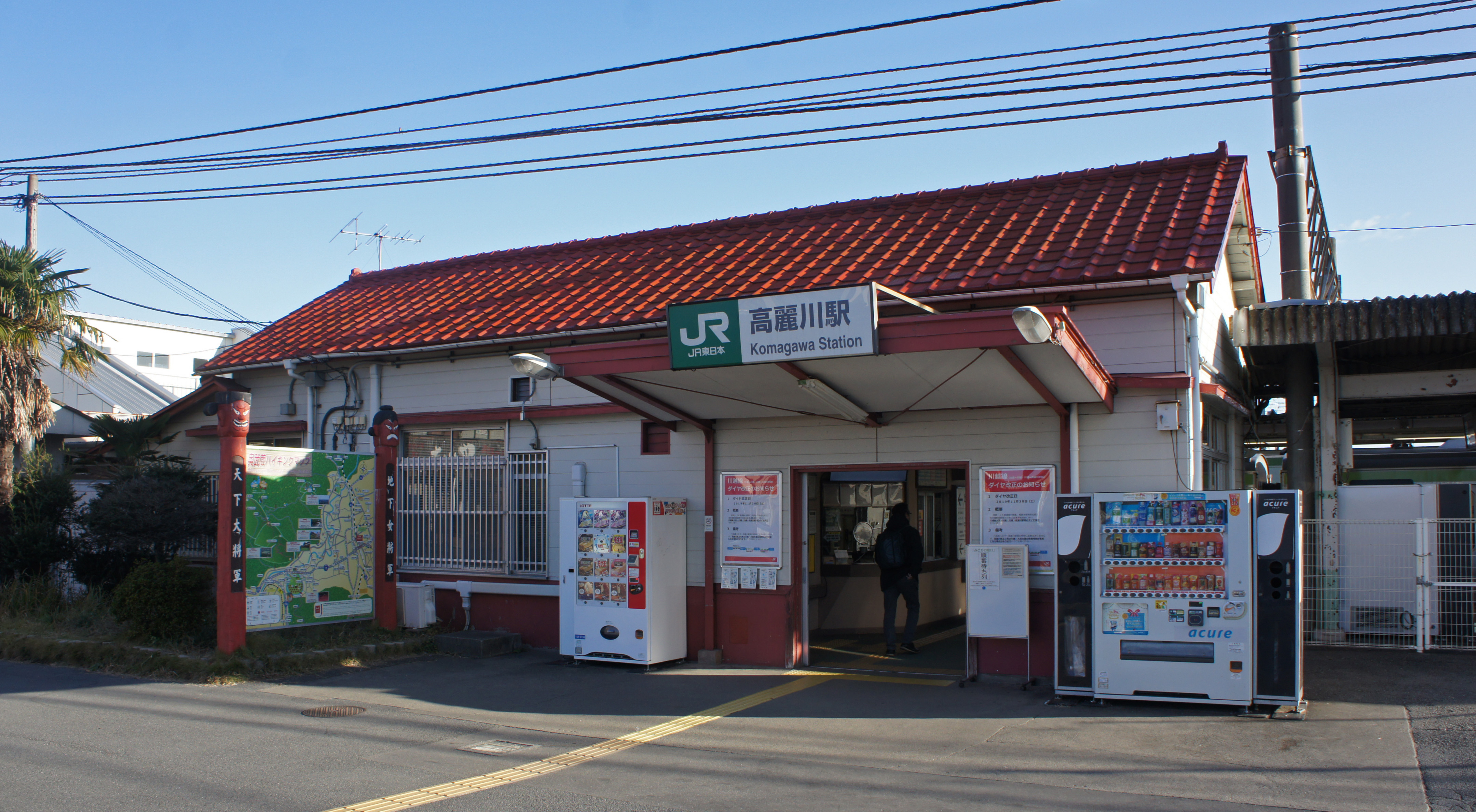 Station building of JR Hachiko-Line/Kawagoe-Line Komagawa Station